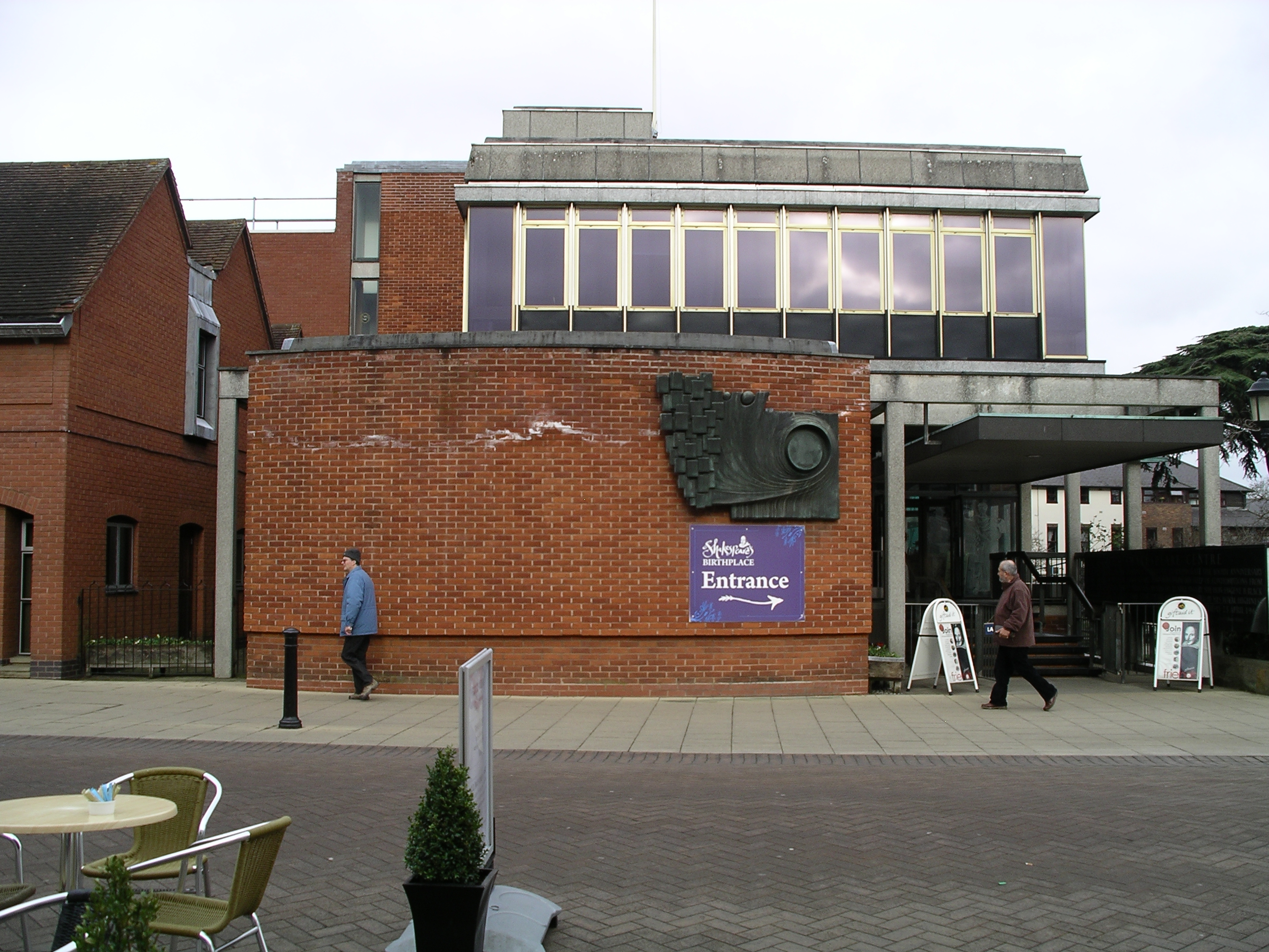 Visitors entrance to Shakespeare's birthplace, Stratford-upon-Avon, Warwickshire, England.